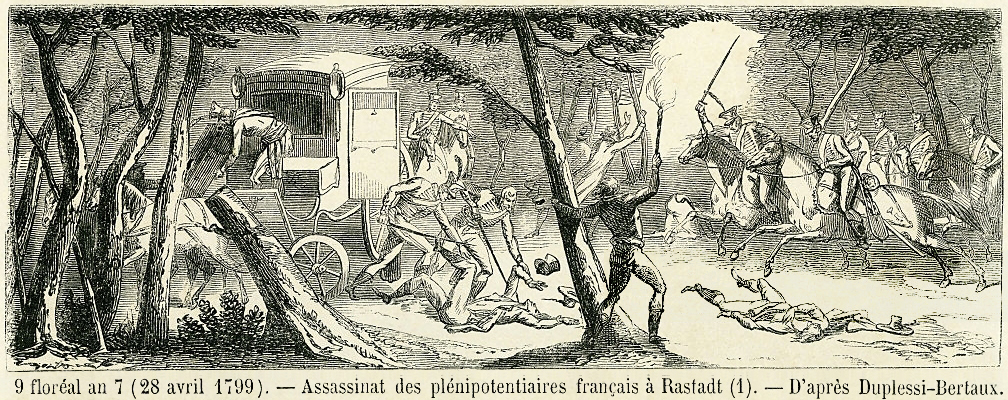 9th Floréal of the 7th Year (28th April 1799). The assassination of french diplomats in Rastatt. 19th Century engraving after Duplessi-Bertaux.